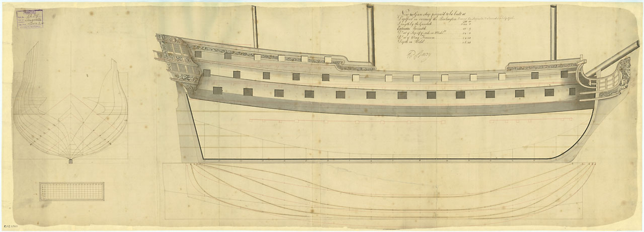 Augusta (1736) Scale: 1:48. Plan showing the body plan, sheer lines with some inboard detail and figurehead, and longitudinal half-breadth proposed (and used) for building Augusta (1736), a 60-gun Fourth Rate, two-decker 'in the room' of the Burlington (1695). The plan has been colour washed and has external decoration details for the broadside and quarter galleries. Signed by Richard Stacey [Master Shipwright, Deptford Dockyard, 1715-1742]. AUGUSTA 1736